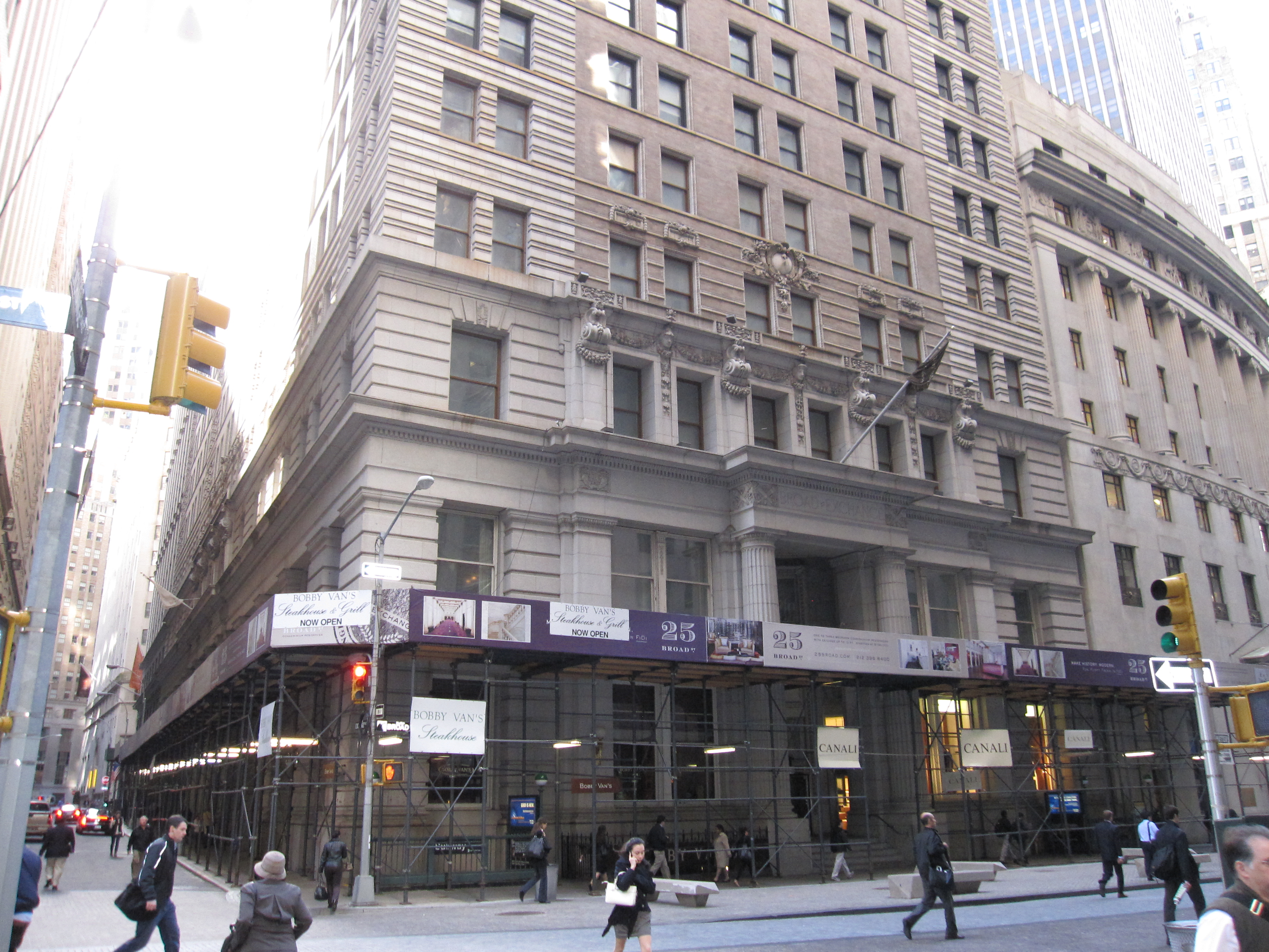 Broad Exchange Building